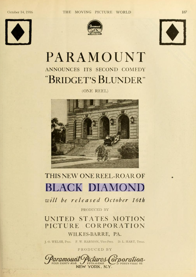 This is an image of an advertisement for one of the 50 silent films made by the United States Motion Picture Corporation. It is for the one reel film Bridget's Blunder and was made in Wilkes-Barre, Pennsylvania.